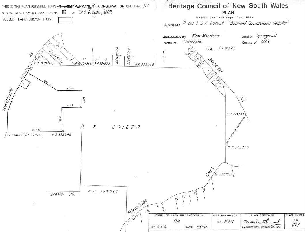 Buckland Convalescent Home: PCO Plan Number 371